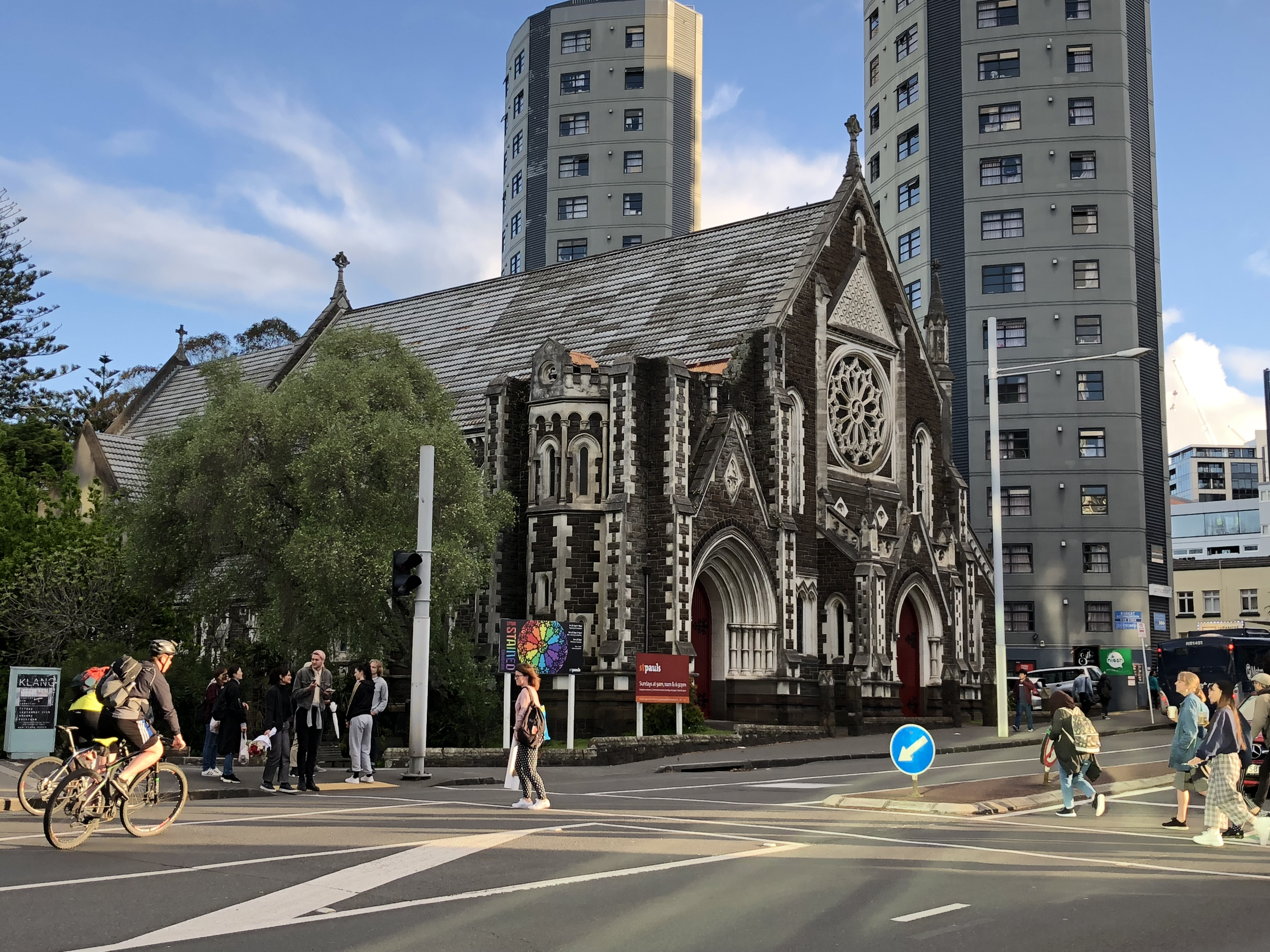 St Paul's Church exterior on Symonds St, Auckland.